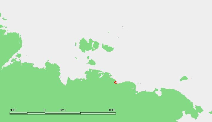 location map